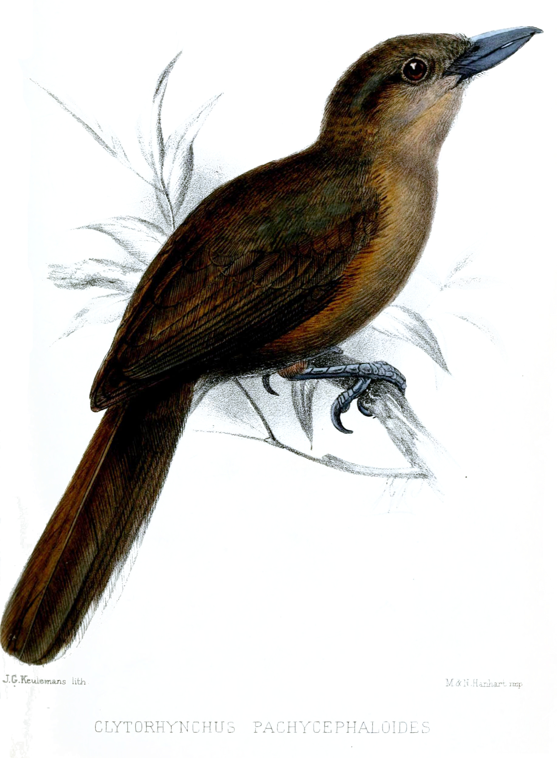 Southern Shrikebill, adult male